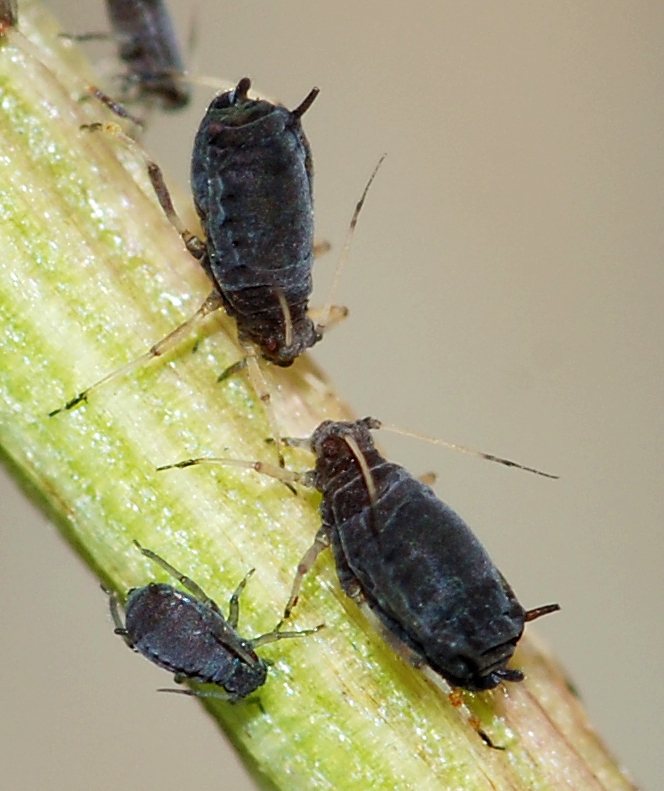 Black Bean Aphids (Aphis fabae)